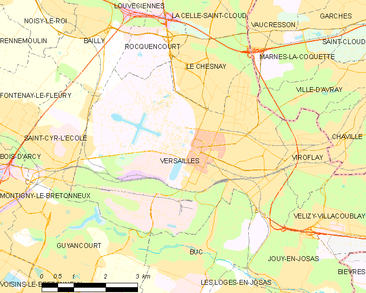 Map of French municipality Versailles